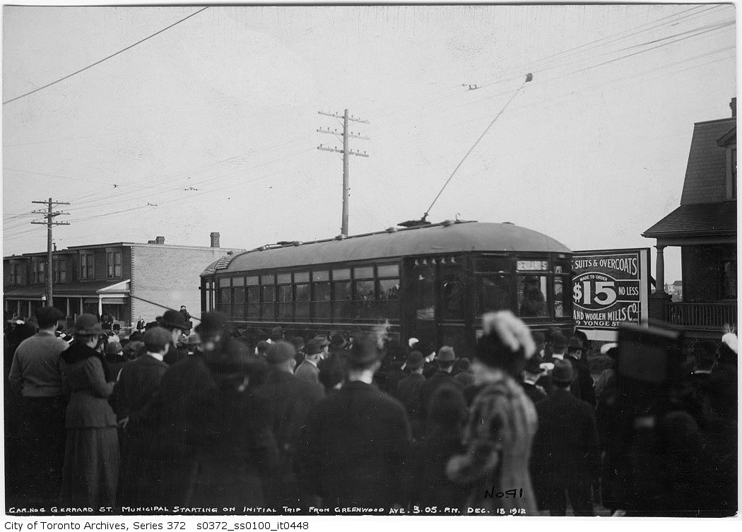 Crowds at Greenwood Ave. wait to board the first streetcar on the Gerrard route of the Toronto Civic Railways. Original caption: “Car 4, Gerrard Street Municipal, starting on initial trip from Greenwood Avenue, 3:05PM”